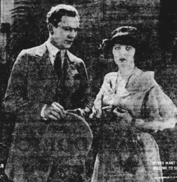 Still from the American comedy film Civilian Clothes (1920) with Thomas Meighan, on page 10 of the December 4, 1920 The Duluth Herald.